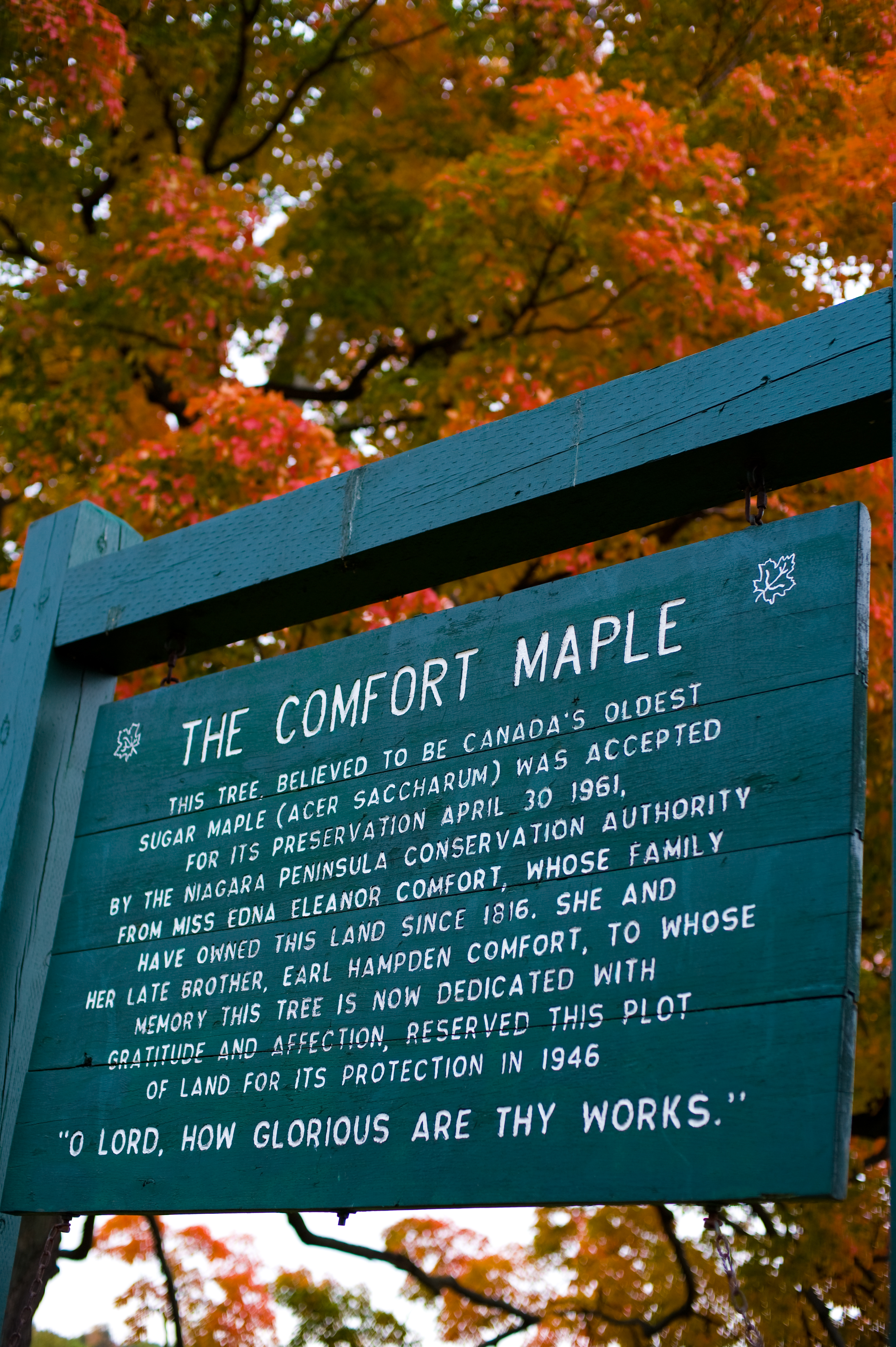 Taken on October 15 2008 by Miklos Bacso